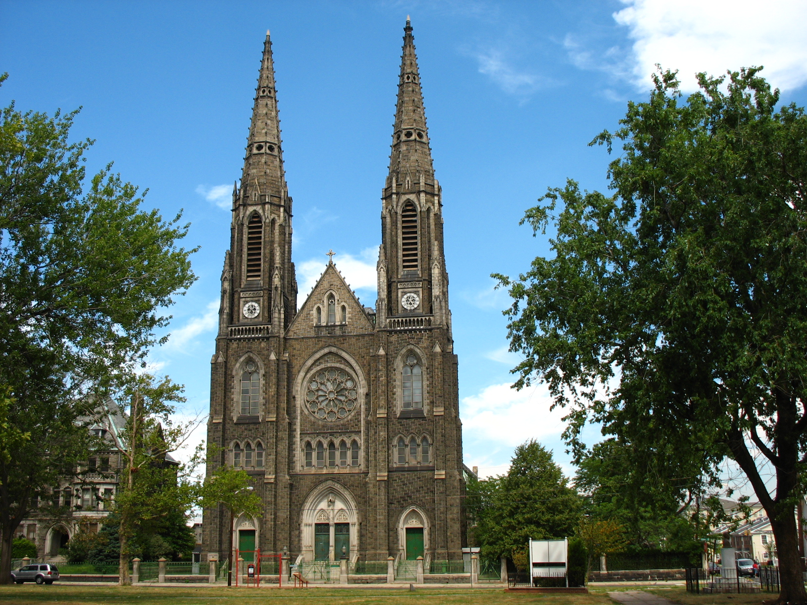 St Patrick Roman Catholic Church, 215 Court Street, Elizabeth, NJ 07206-1852, Elizabeth, New Jersey.